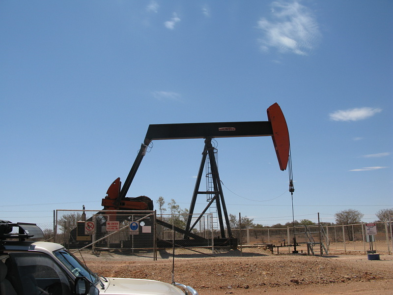 Oil Well near Eromanga (130 klm west of Quilpie)